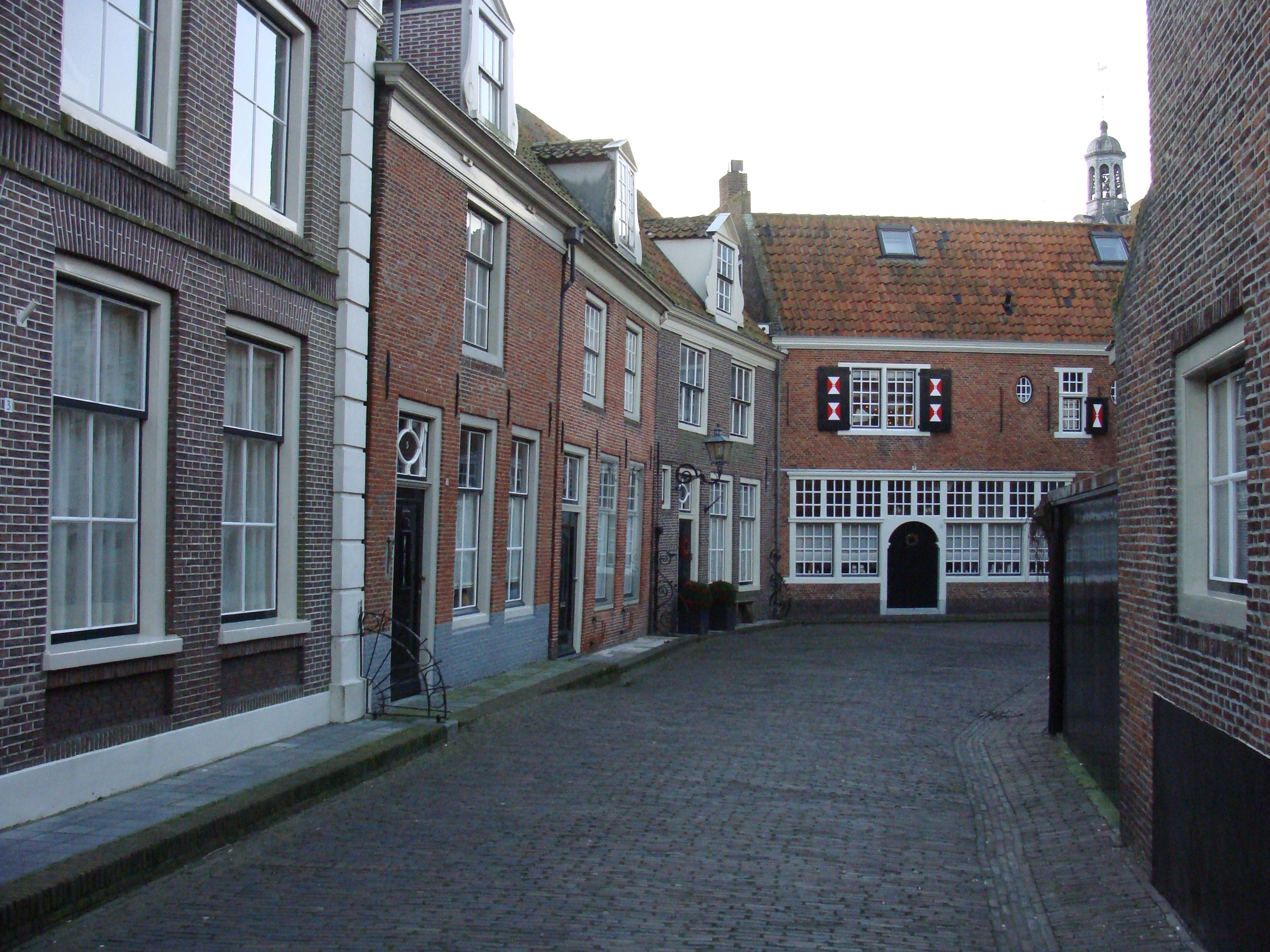 De Bocht, a picturesque street in the Dutch town of Enkhuizen.